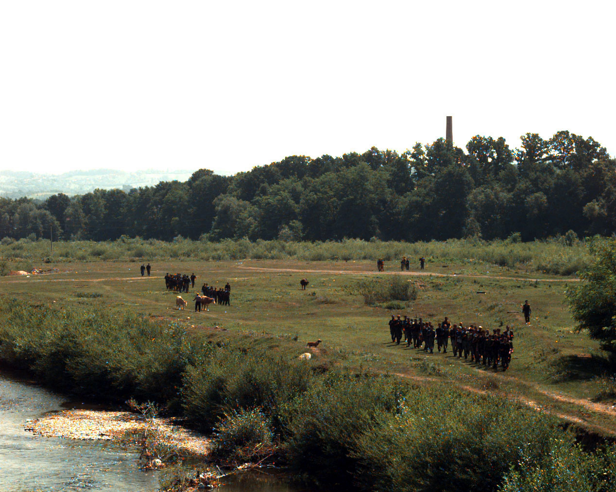 HVO soldiers leave the new site of the Allied Rapid Reaction Corps Tactical Headquarters in Jelah, Bosnia-Herzegovina, approximately 4 kilometers northwest of Tešanj.